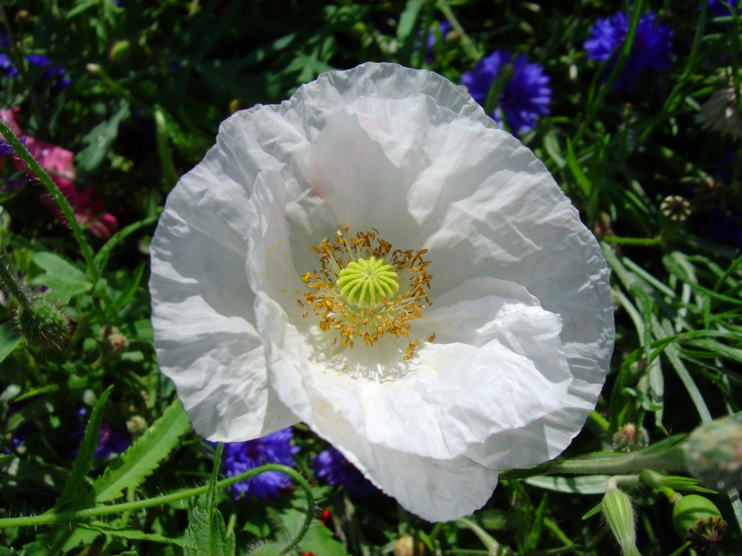 Coquelicot / Papaver rhoeas; white poppy; weißer Mohn